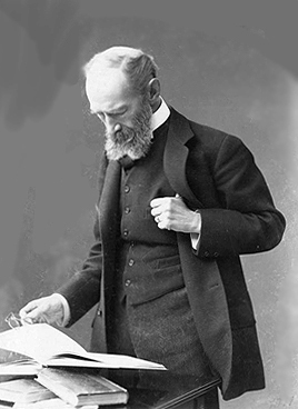 Swedish theologian Oscar Quensel (1845-1915).